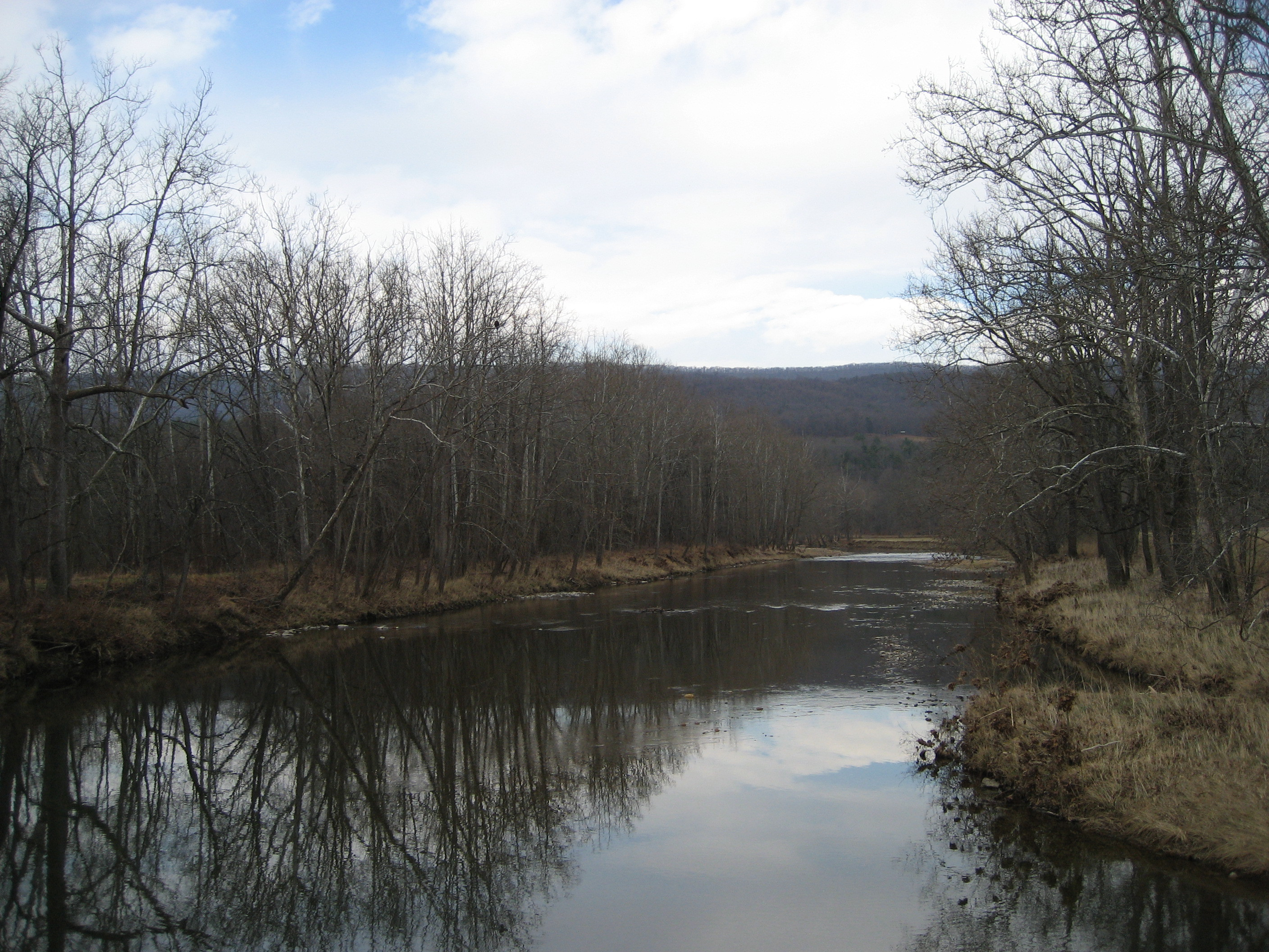 Picture I took of the Cowpasture River.